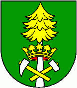 Coat of arm of Kunešov